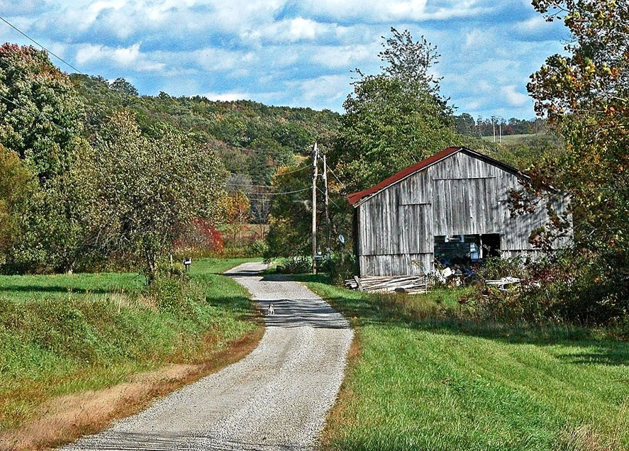 Countryside scene on Vanaka Bank Road in western Camp Creek Township, Pike County, Ohio, United States.